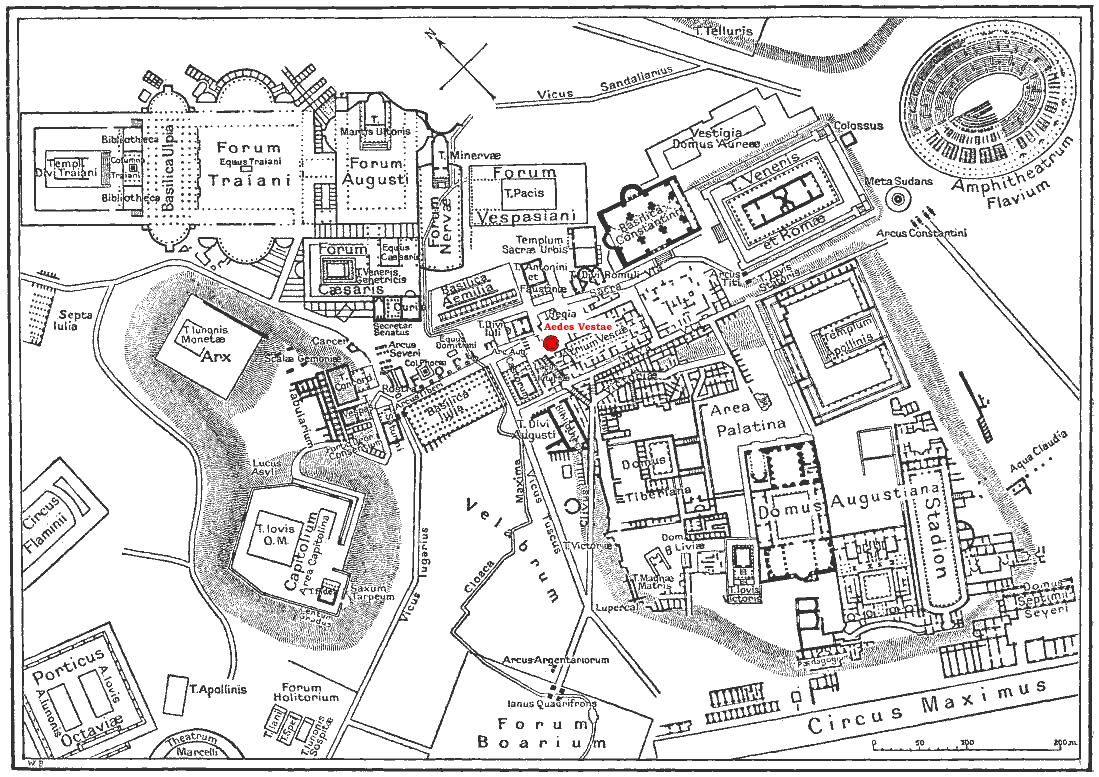 Map of antique downtown Rome, Temple of Vesta is highlited.